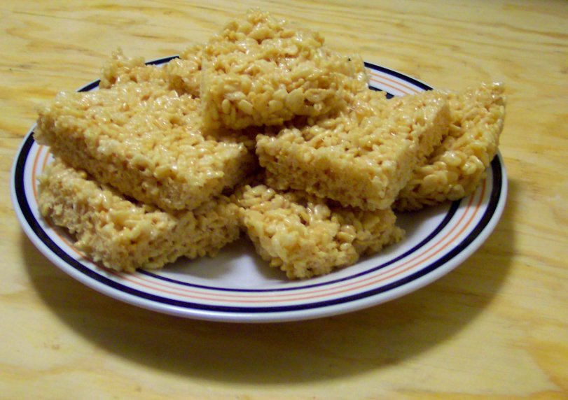 Rice Krispie treats squares. Photo taken by User:TexasDex.